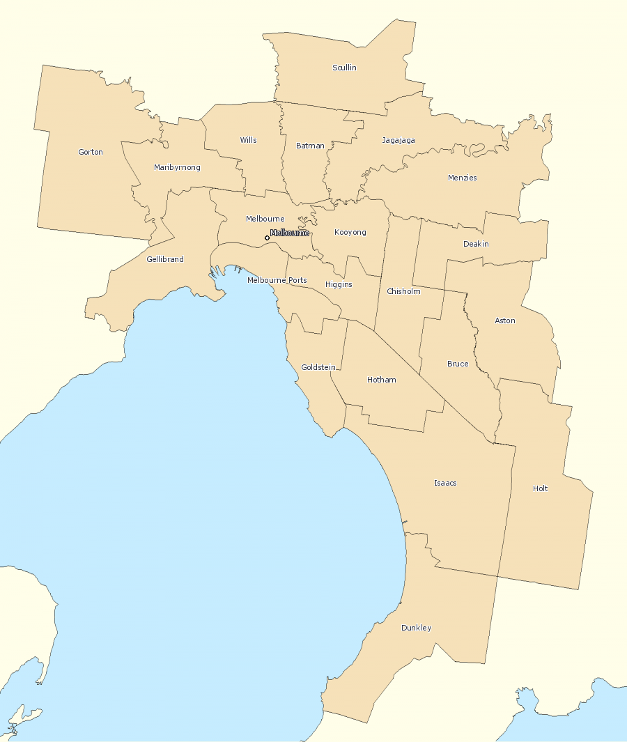 This image incorporates data that is: © Commonwealth of Australia (Australian Electoral Commission) 2009 Melbourne divisions overview 2010